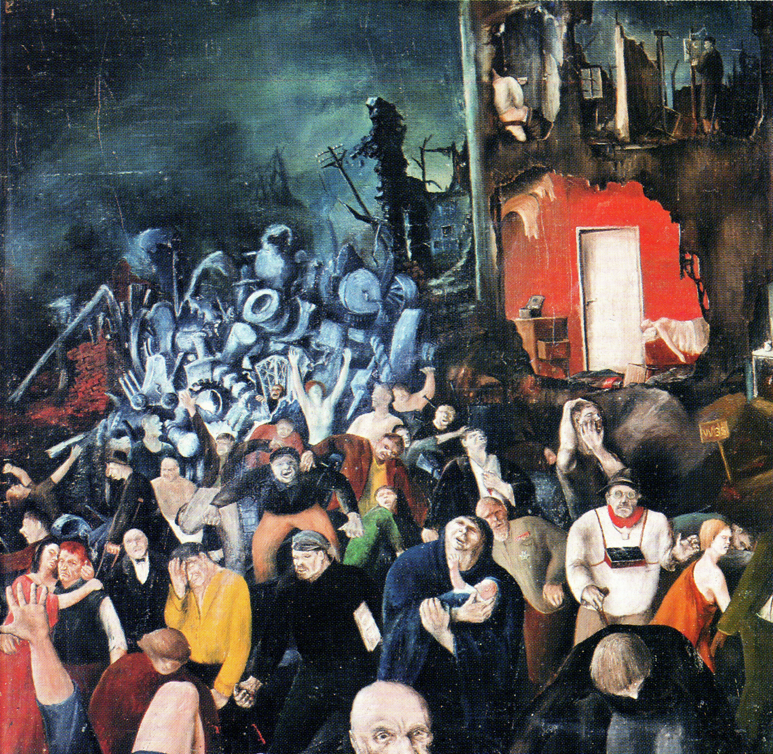 The Machines attack Men, painting by author Peter Weiss, 1935, oil on wood, 52,5 x 52,5 cm